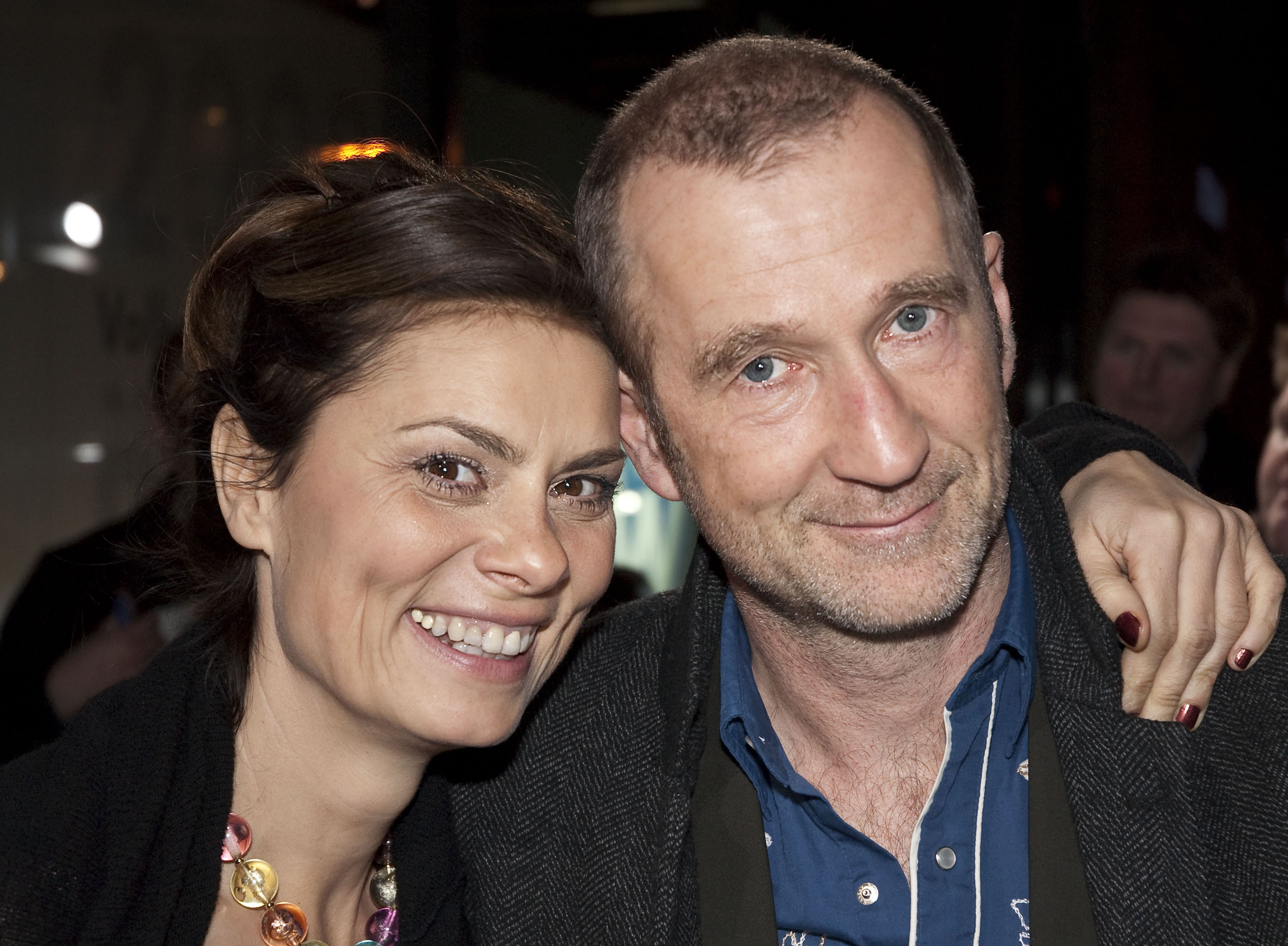 Sarah Wiener, Austrian entrepreneur and cook with her then friend, now husband Peter Lohmeyer, German actor, at the Volkswagen People’s Night 2008